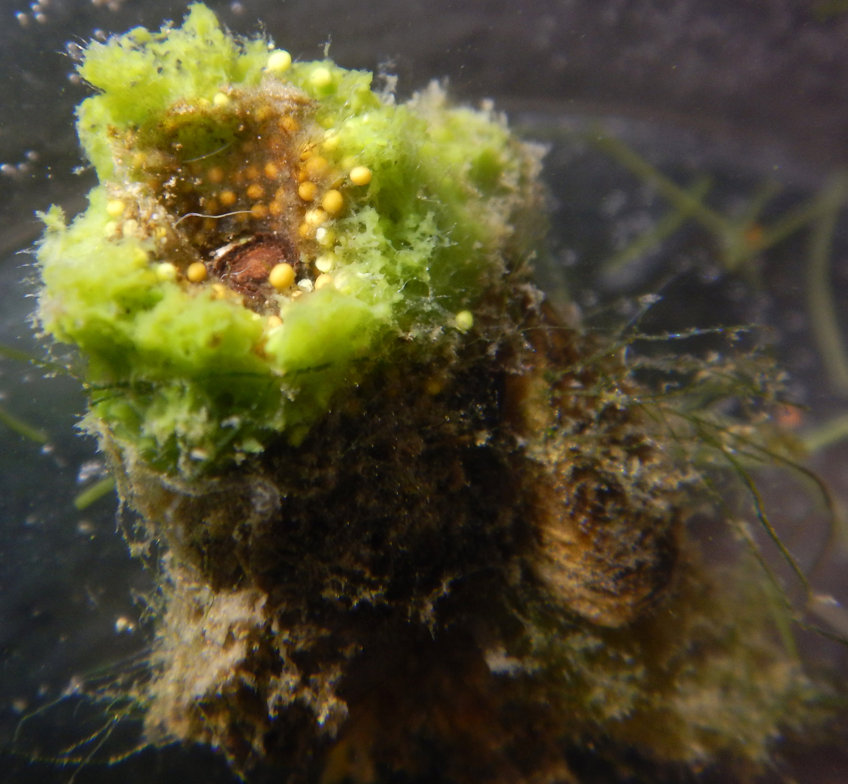 Gemmules of the freshwater sponge Spongilla lacustris (here in northern France) = resistant form of metabolic dormancy and appear in autumn.